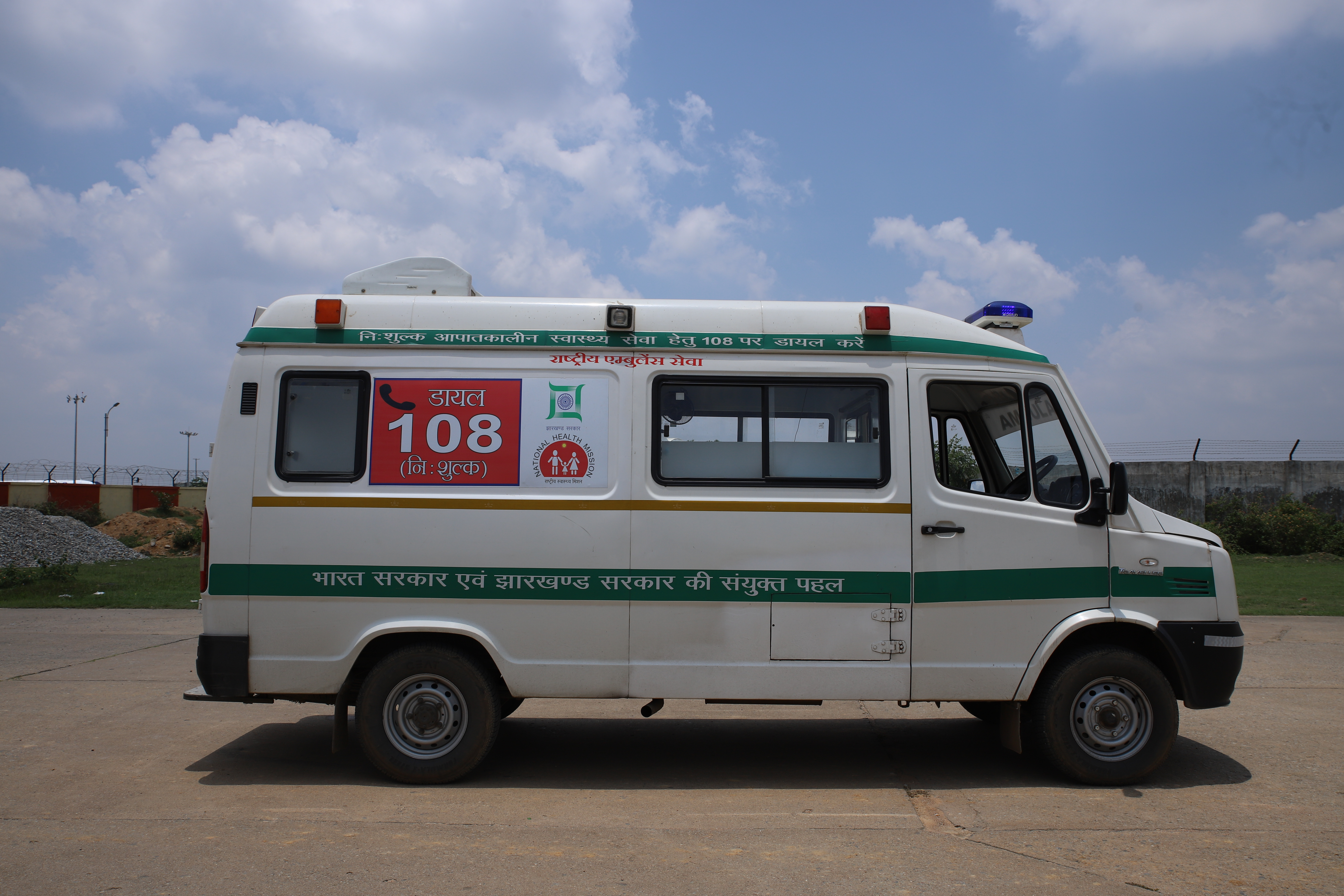 The new ambulances operational under the 108 emergency telephone number have green colour stripes replacing the classic blue colour stripes used earlier.